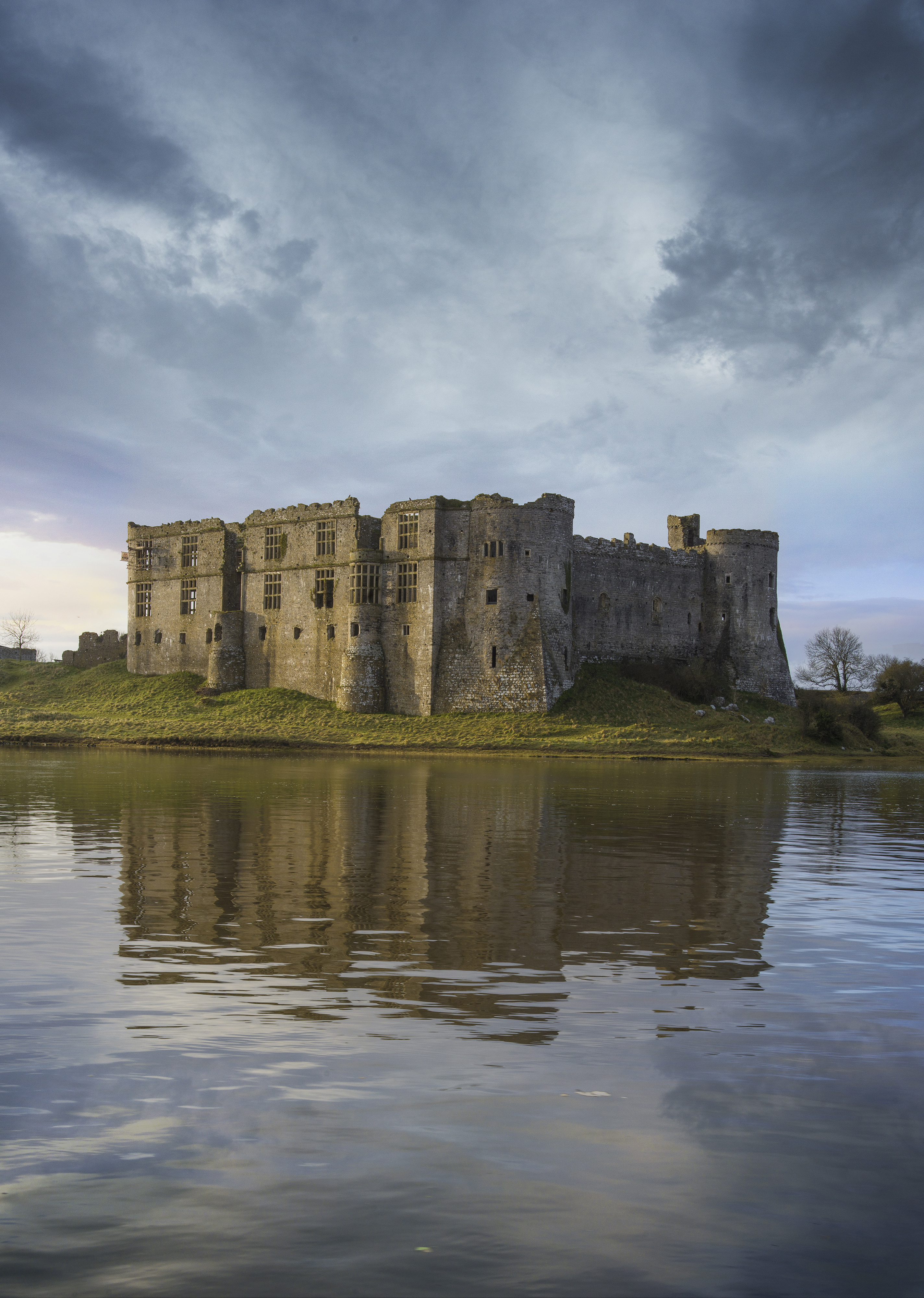 Carew Castle as seen at dawn from across the tidal estuary